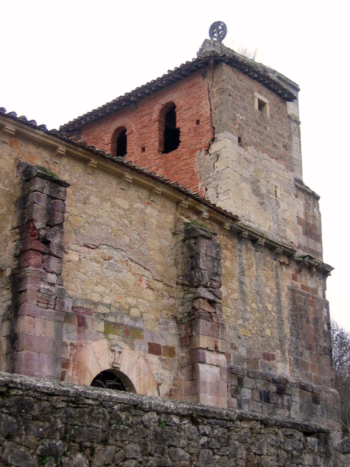 Church of Saint Peter in Barrio de San Pedro, Becerril del Carpio (Palencia, Castile and León).